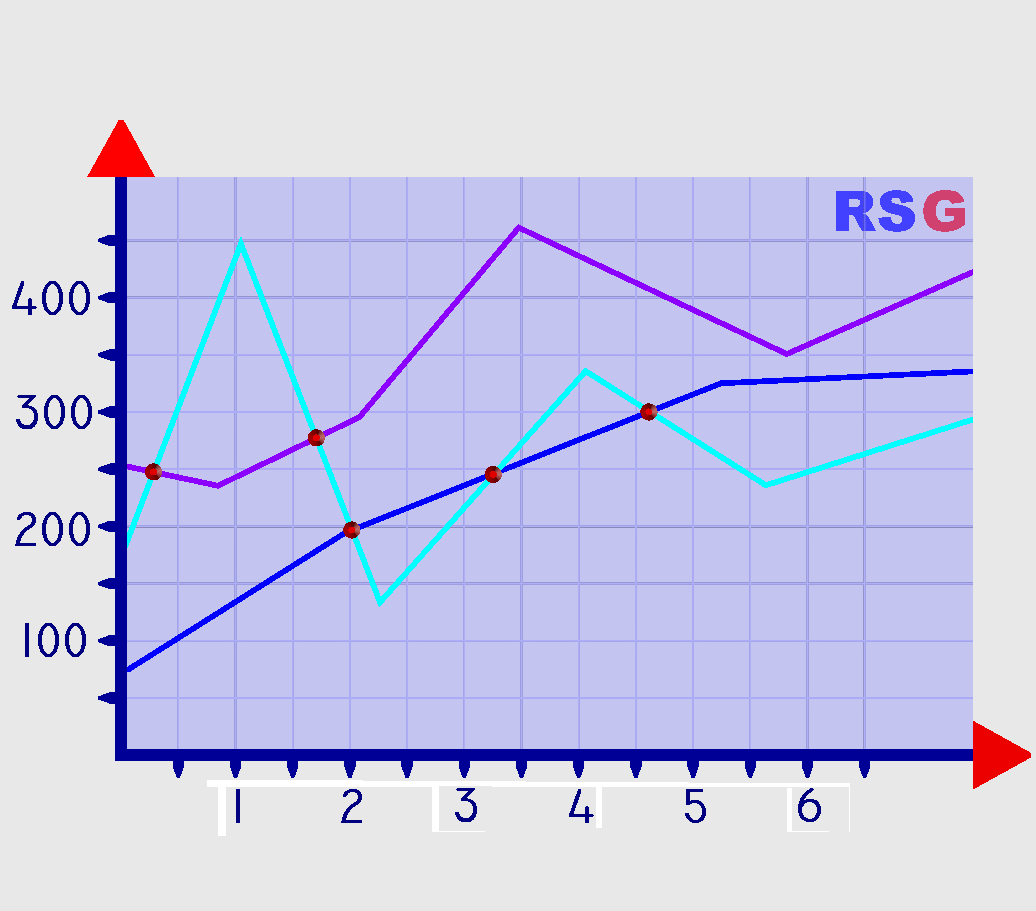 The schematic image of the line RSG diagram.